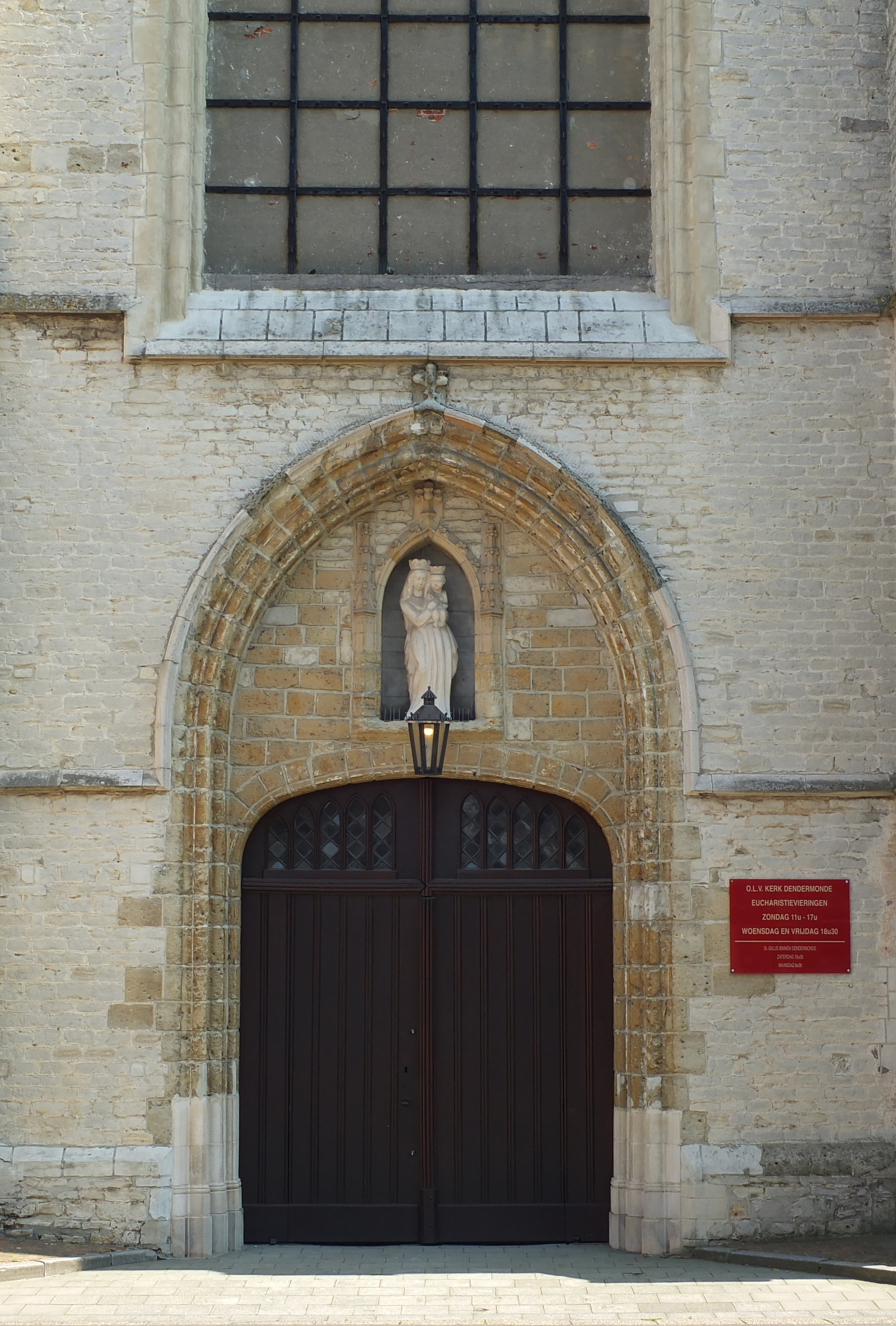 Portal of Our Lady's Church (Onze-Lieve-Vrouwekerk) in Dendermonde. The white painted statuette of "Madonna and Child" is a copy by J. De Decker of Antoon Fayd'herbe's sand stone statue of 1622.